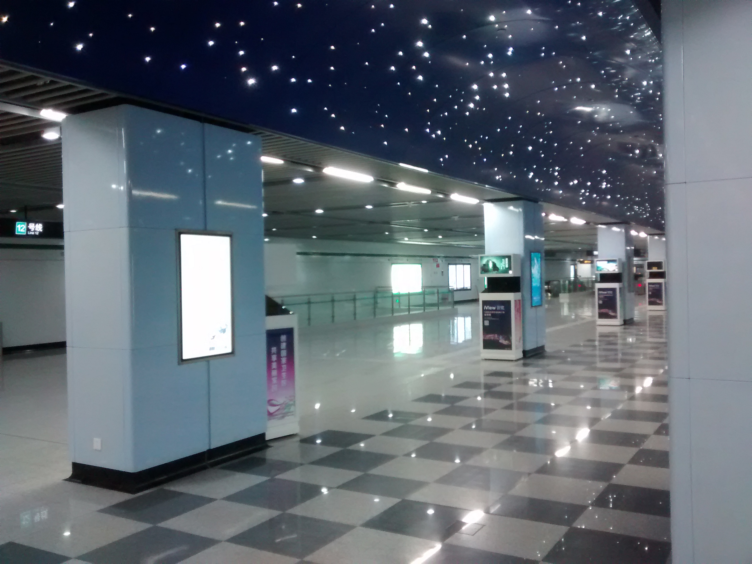 International Cruise Terminal Station, Shanghai.